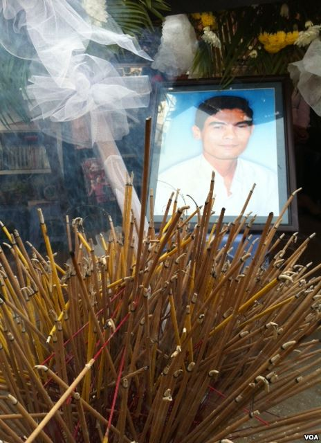 Mr. Chea Vichea, former leader of Free Trade Union of Workers of the Kingdom of Cambodia, was shot dead in Phnom Penh, on January 22, 2004. ភាសាខ្មែរ: លោក ​ជា​ វិជ្ជា​ អតីត​ប្រធាន​​​សហជីព​​​សេរី​កម្មករ​​​នៃ​ព្រះរាជាណាចក្រ​កម្ពុជា​ត្រូវ​​​បាន​​​គេ​បាញ់​​​សម្លាប់​​​នៅ​​​កណ្តាល​​​ទីក្រុង​ភ្នំពេញ កាល​ពី​ថ្ងៃ​ទី​២២​ខែ​មករា​ឆ្នាំ​២០០៤។